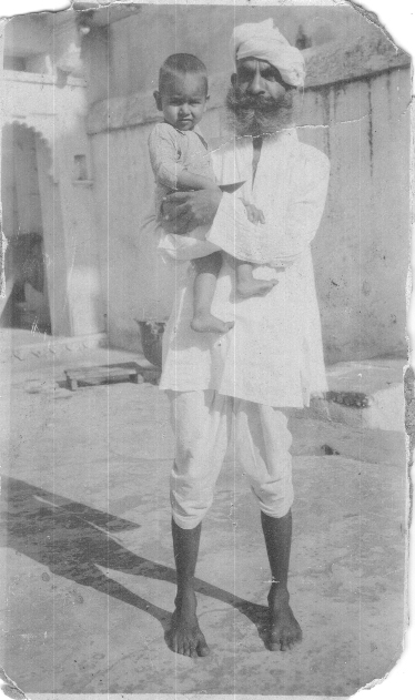 BAVJI CHATUR SINGHJI - 1